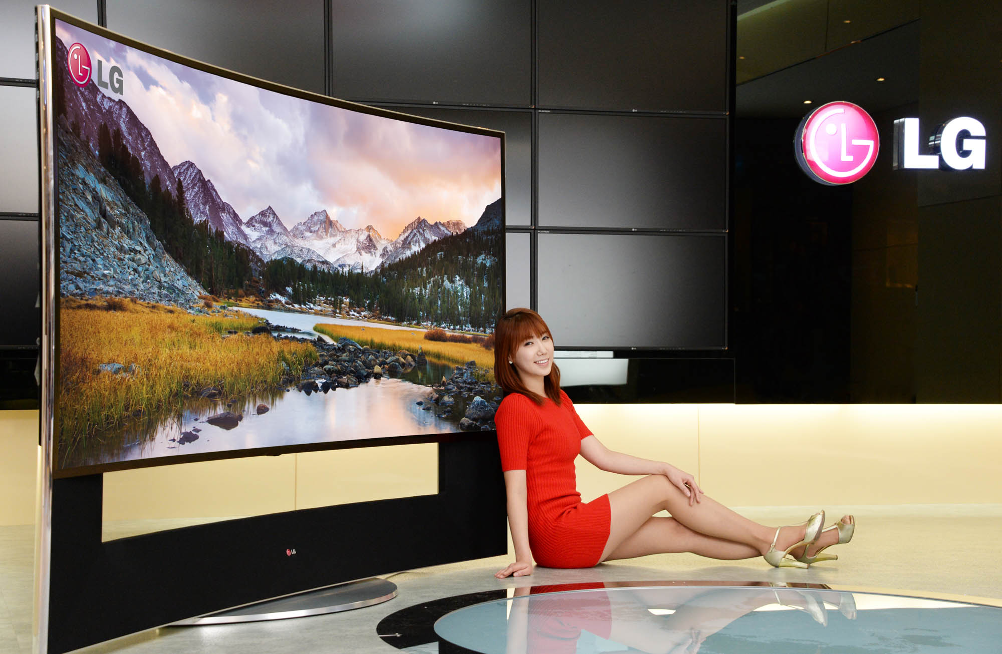 Models introducing TV